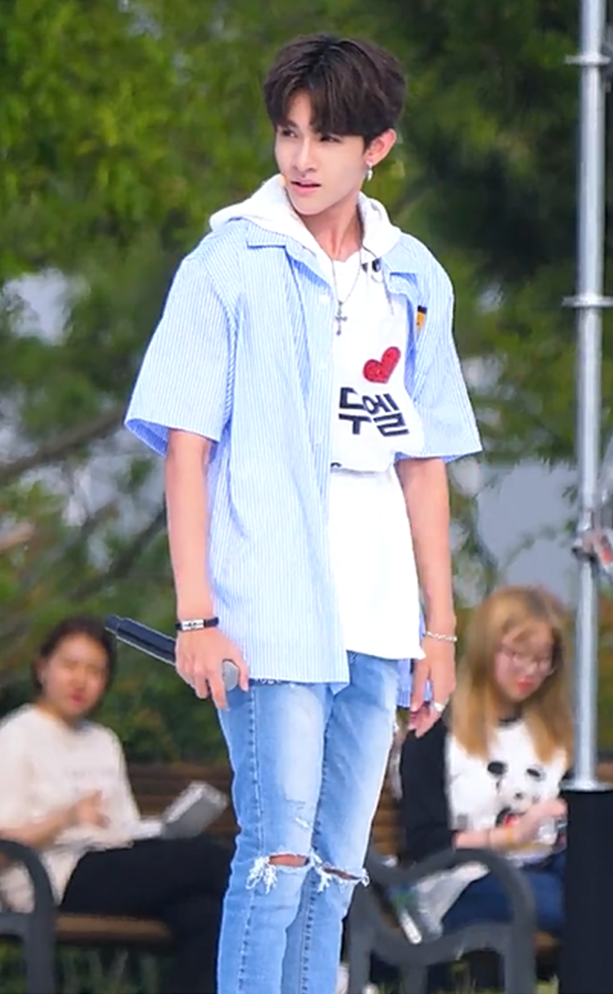 Samuel Kim performing "I Got It" during rehearsal at Sky Festival on September 3, 2017.